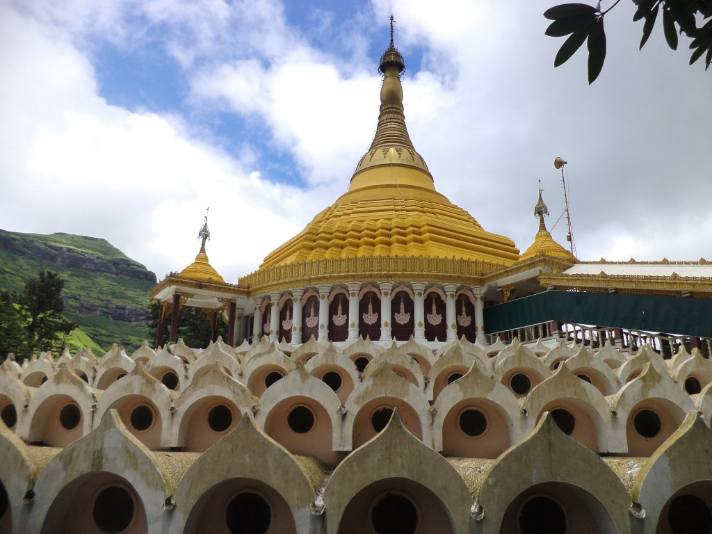 pagoda